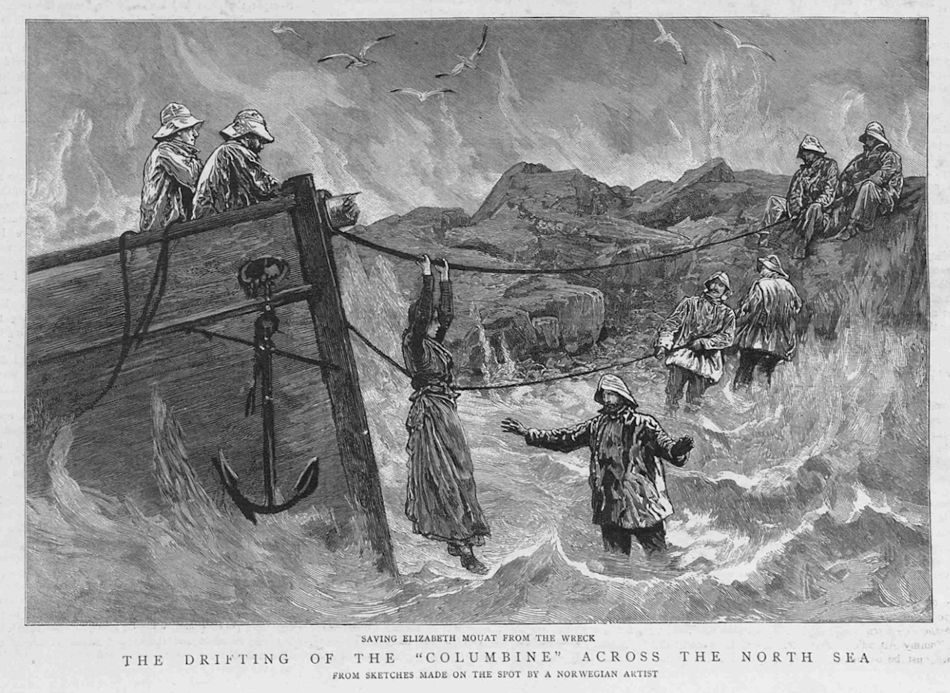 The Drifting of the "Columbine" Across the North Sea by William Lionel Wyllie from The Graphic, March 13, 1886, Front Page